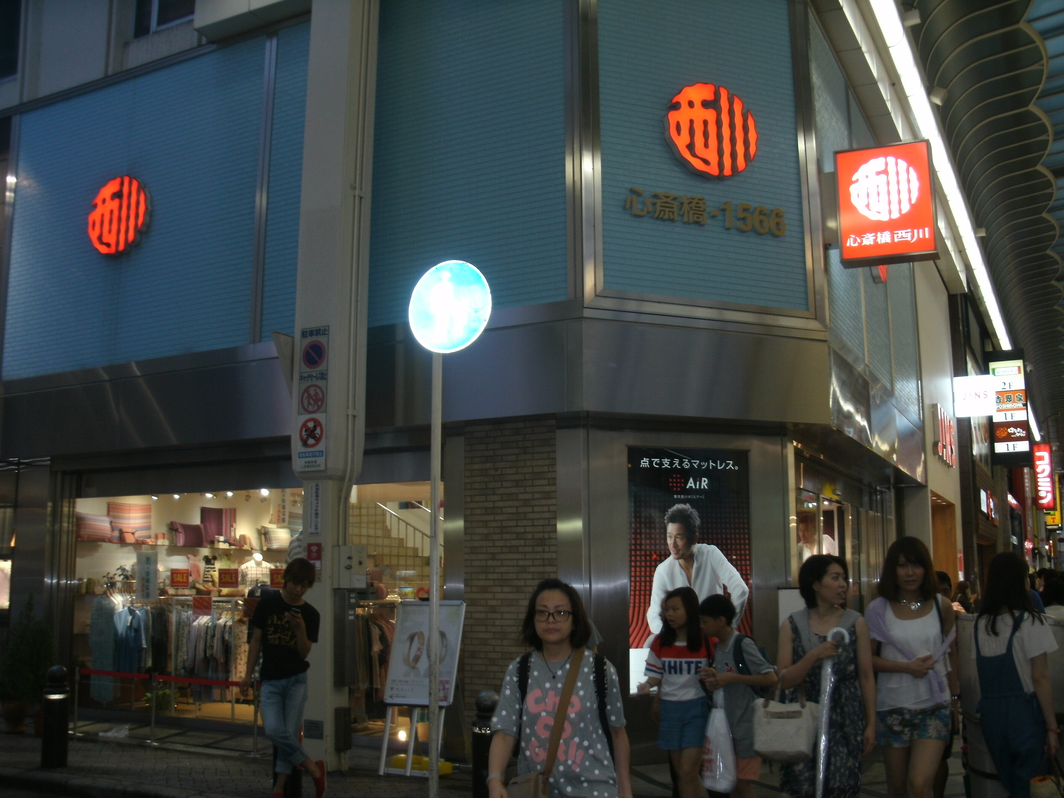 Shinsaibashi Nishikawa Bed Shop